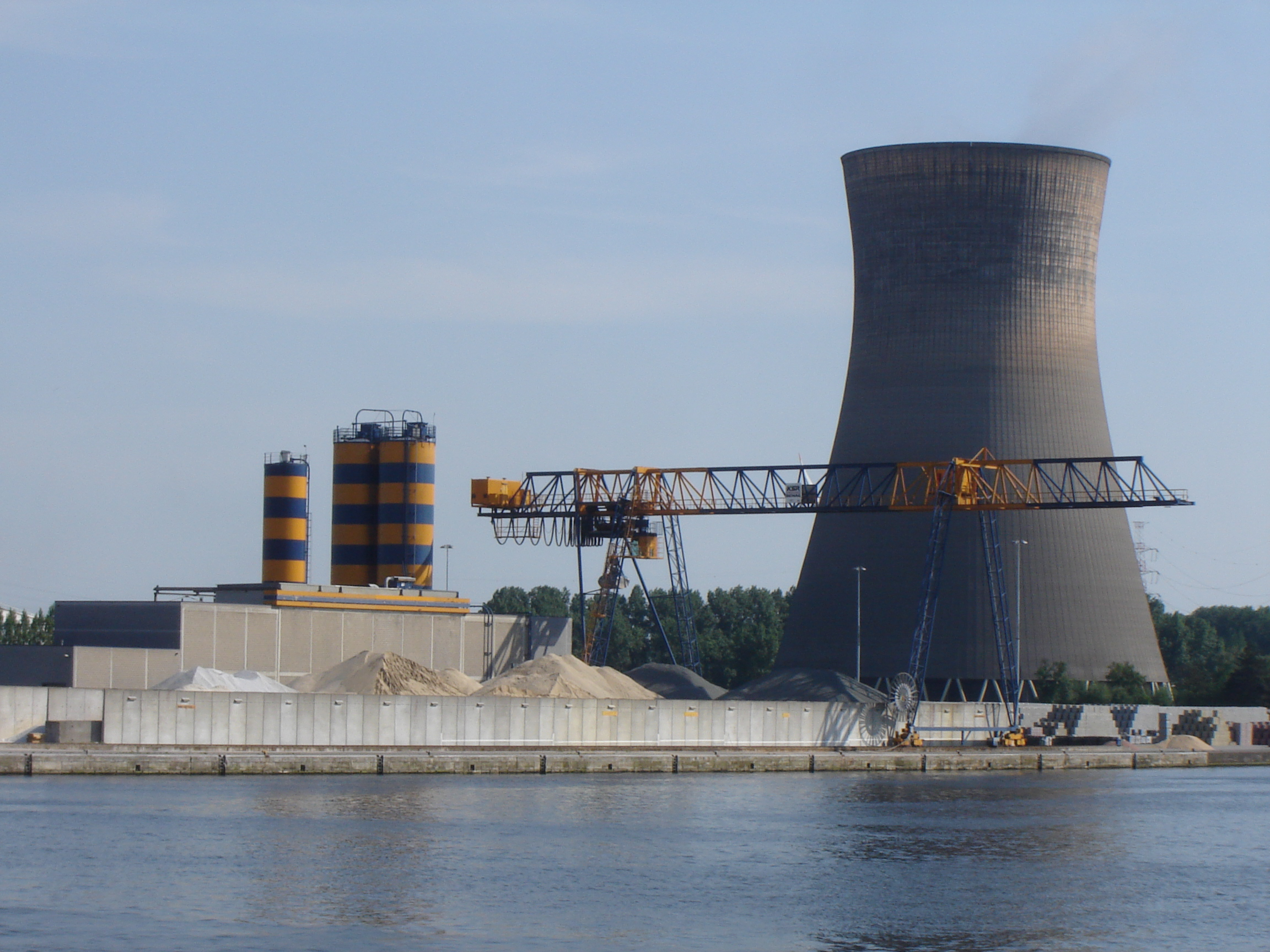 Cooling tower of the Electrabel power plant Rodenhuize, along the canal Gent-Terneuzen. Gent, East Flanders, Belgium